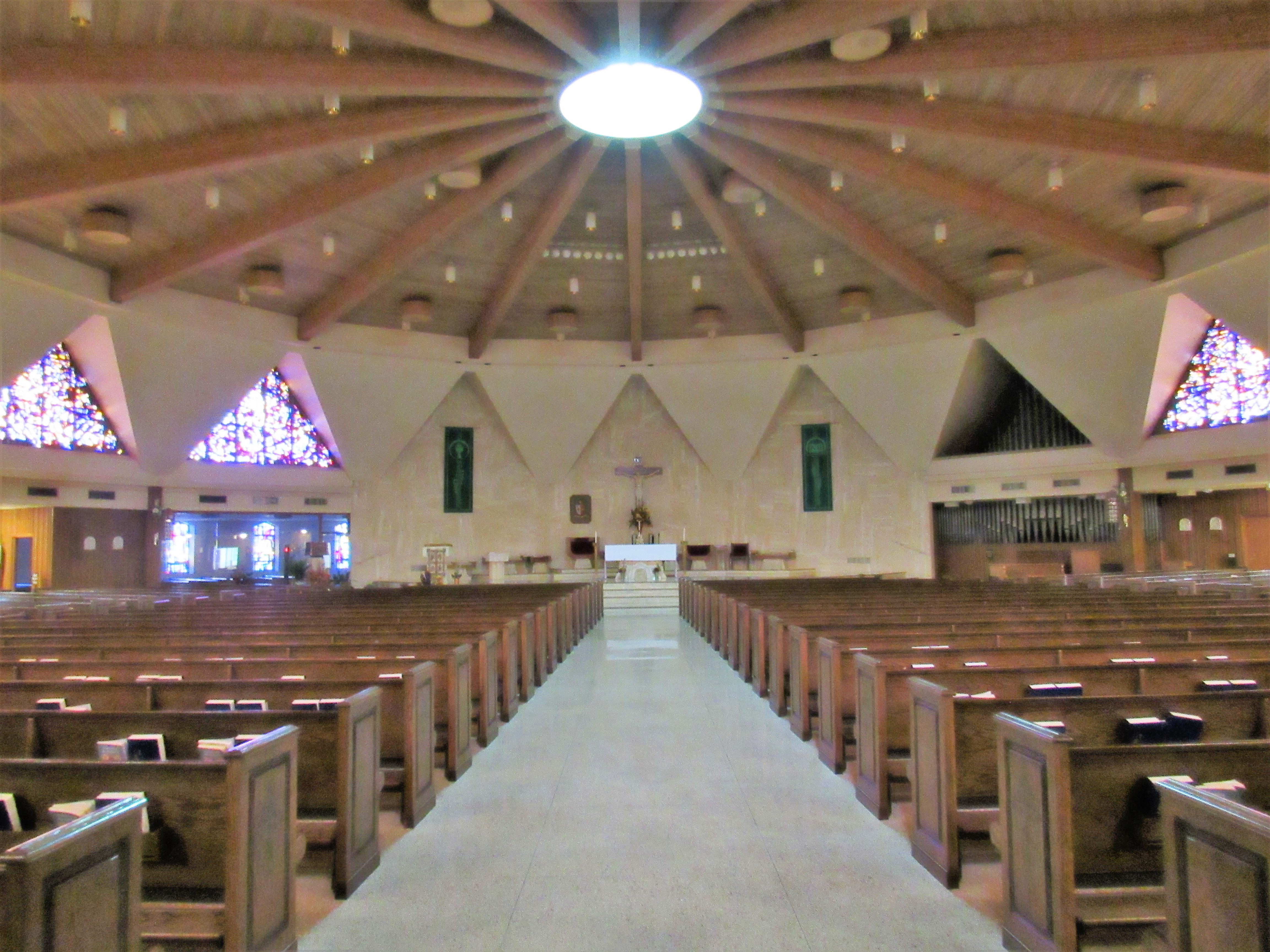 The interior of the Cathedral of Saint Joseph in Jefferson City, Missouri.